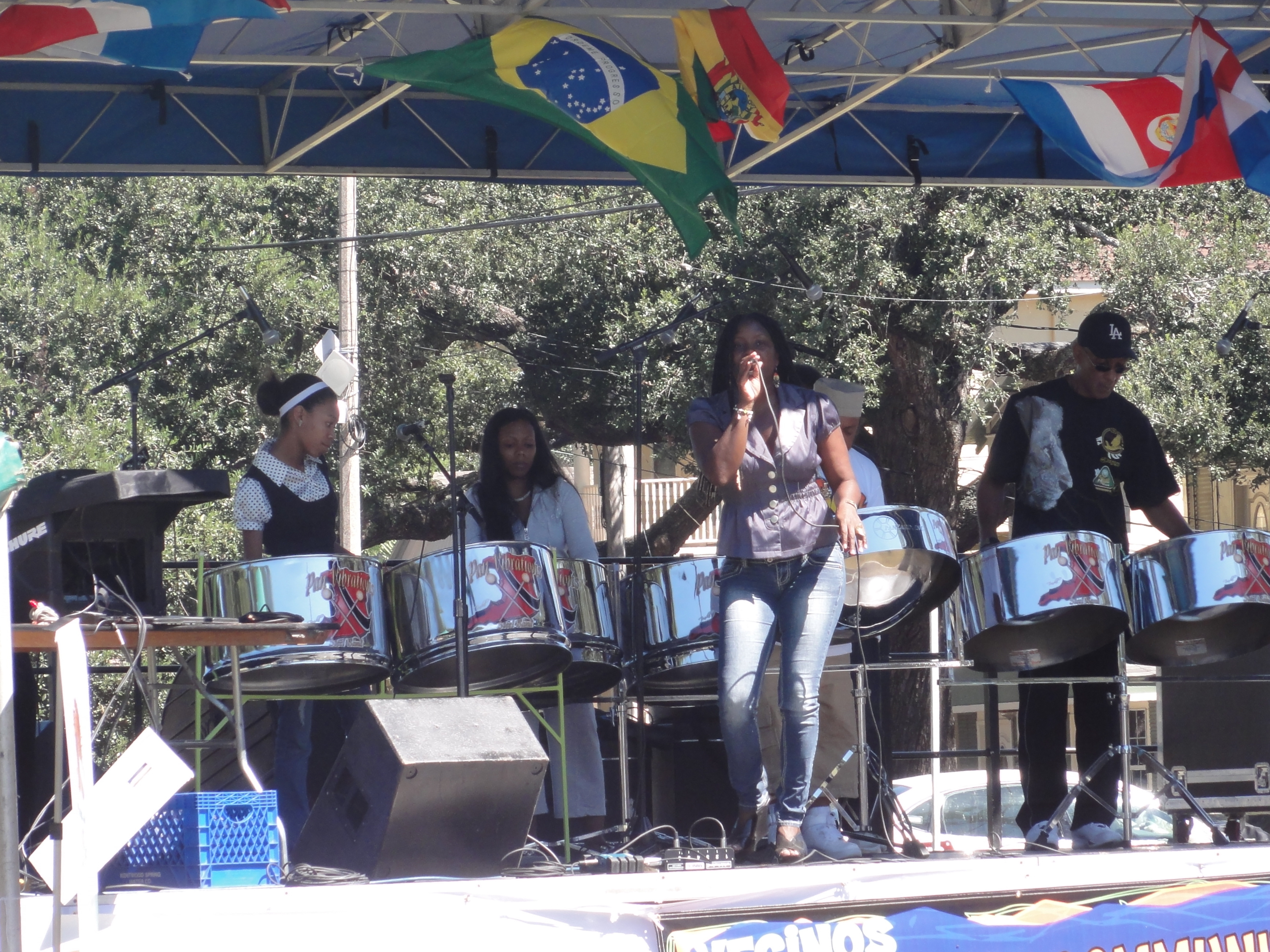 Pan Vibrations Steelband of New Orleans at Vecinos "Unity in the Community" festival. New Orleans